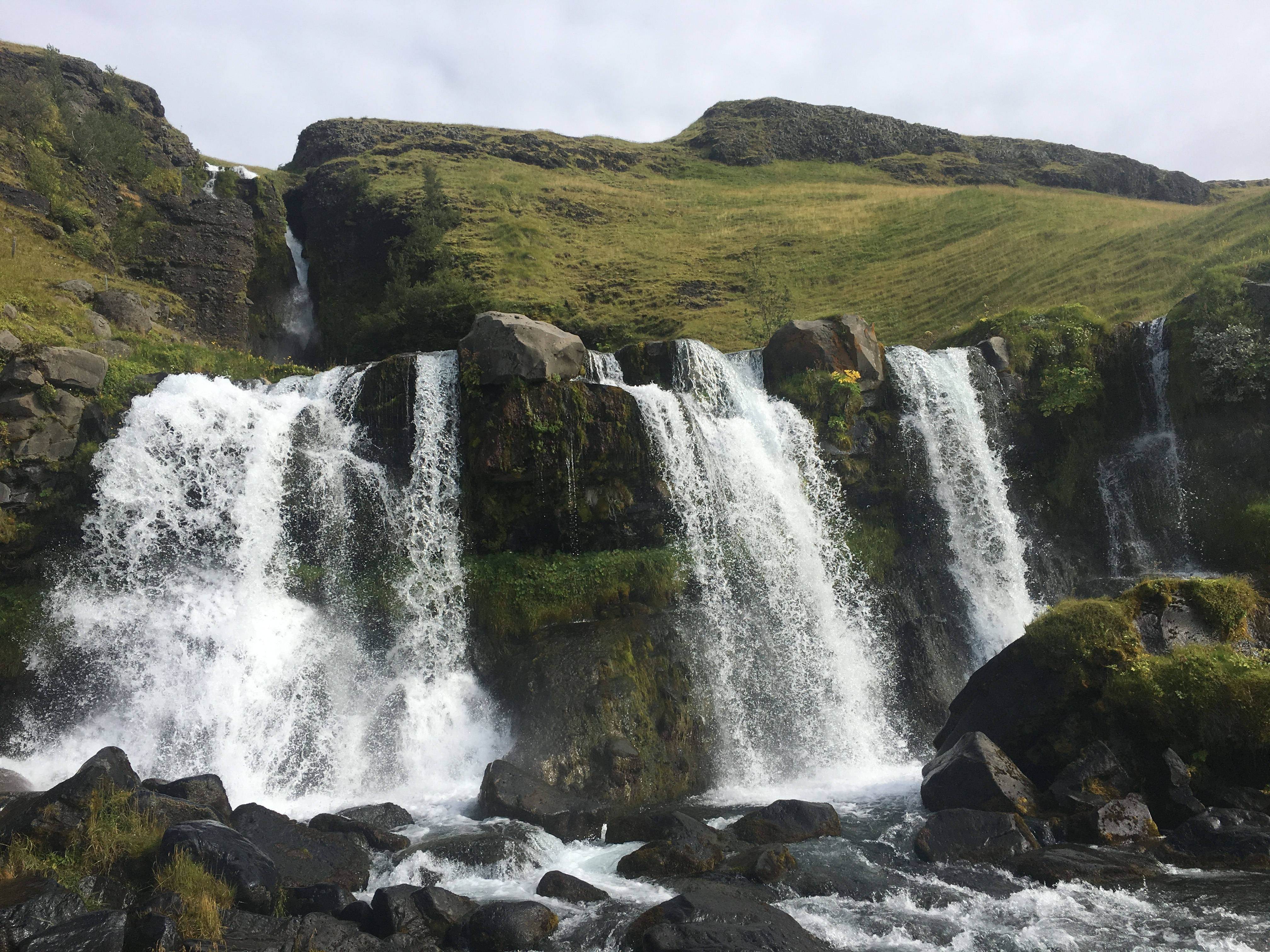 Gluggafoss, a waterfall in South Iceland.